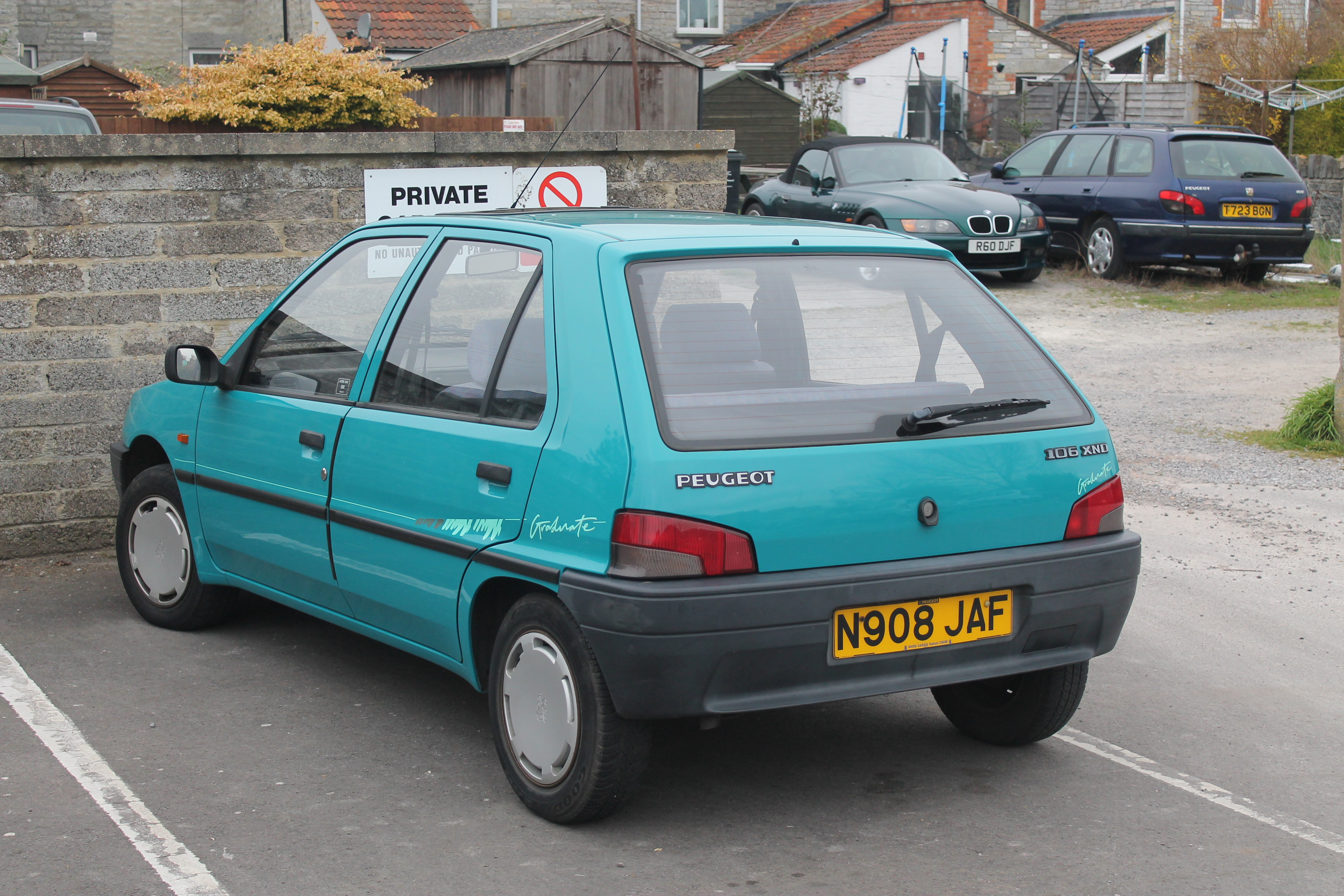 Not rare, but a Cornish regiseted one, and incredibly clean looking. Pretty spotless really! Looking good for nearly twenty years of age. Sold by Avers Garage of Redruth. The vehicle details for N908 JAF are: Date of Liability 01 07 2014 Date of First Registration 11 10 1995 Year of Manufacture 1995 Cylinder Capacity (cc) 1527cc CO₂ Emissions Not Available Fuel Type HEAVY OIL Export Marker N Vehicle Status Licence Not Due Vehicle Colour BLUE Vehicle Type Approval Not Available